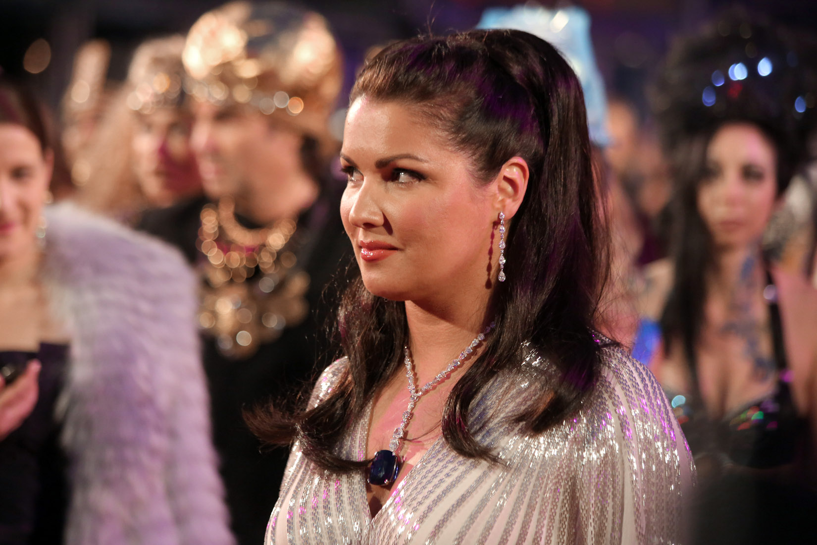 Anna Netrebko on the 'magenta carpet' at Life Ball 2013 at the square in front of the city hall of Vienna, Vienna, Austria.